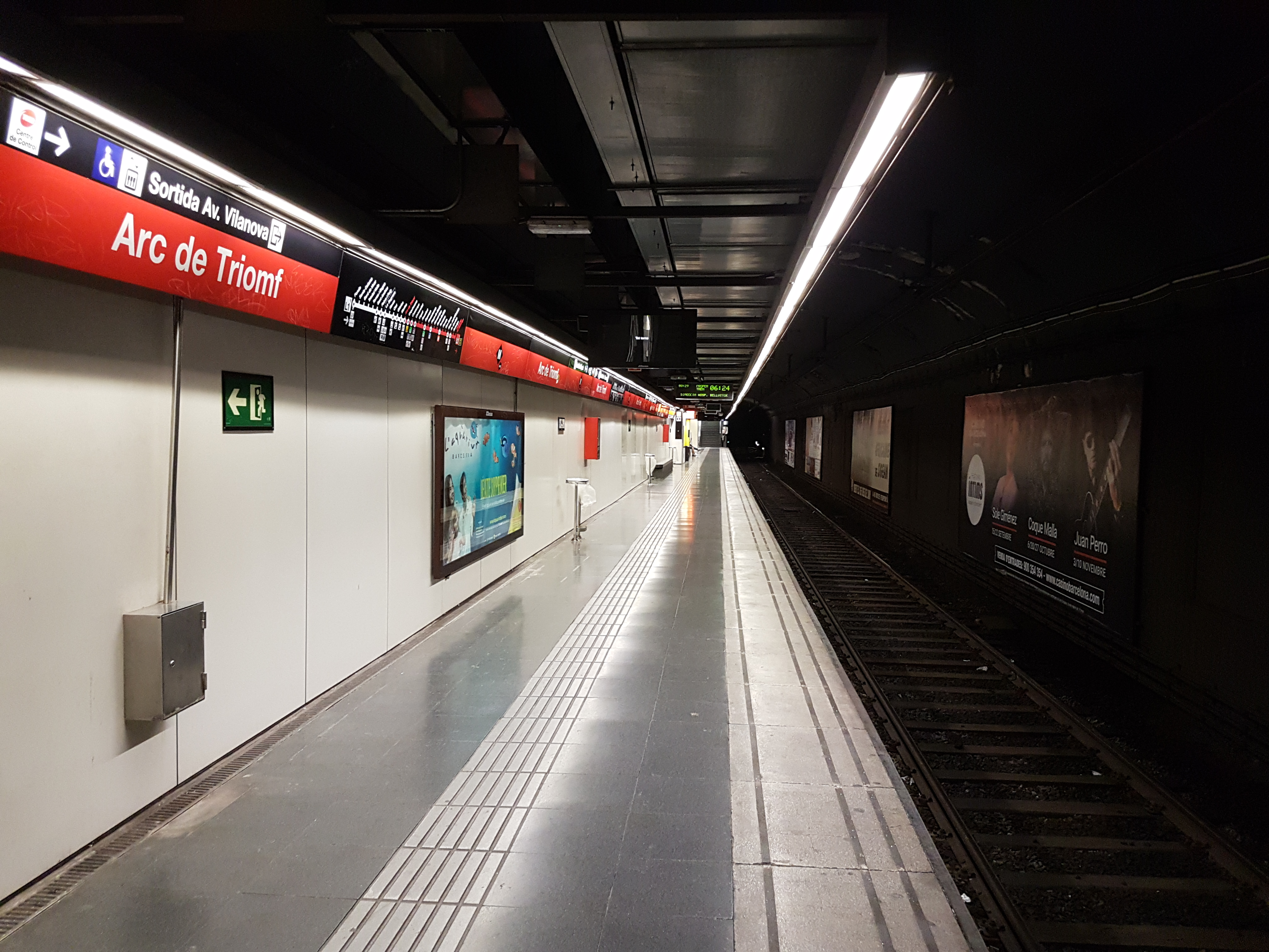 Andana direcció Hospital de Bellvitge de l'estació d'Arc de Triomf de la L1